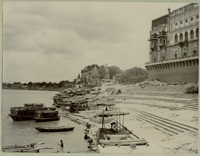 Ghats of Benares in the 1890s